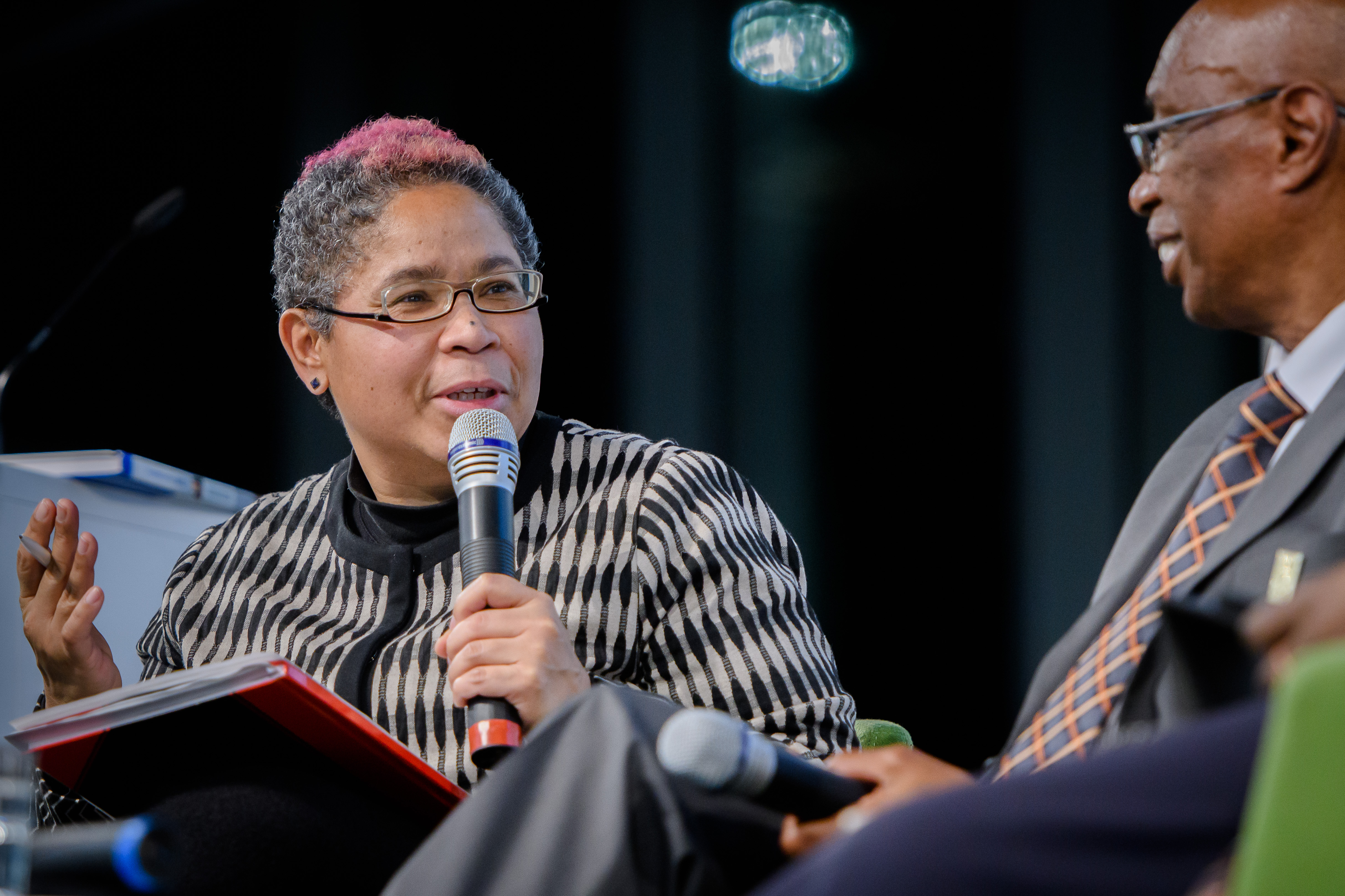 Peggy Piesche (Gunda-Werner-Institut der Heinrich-Böll-Stiftung)